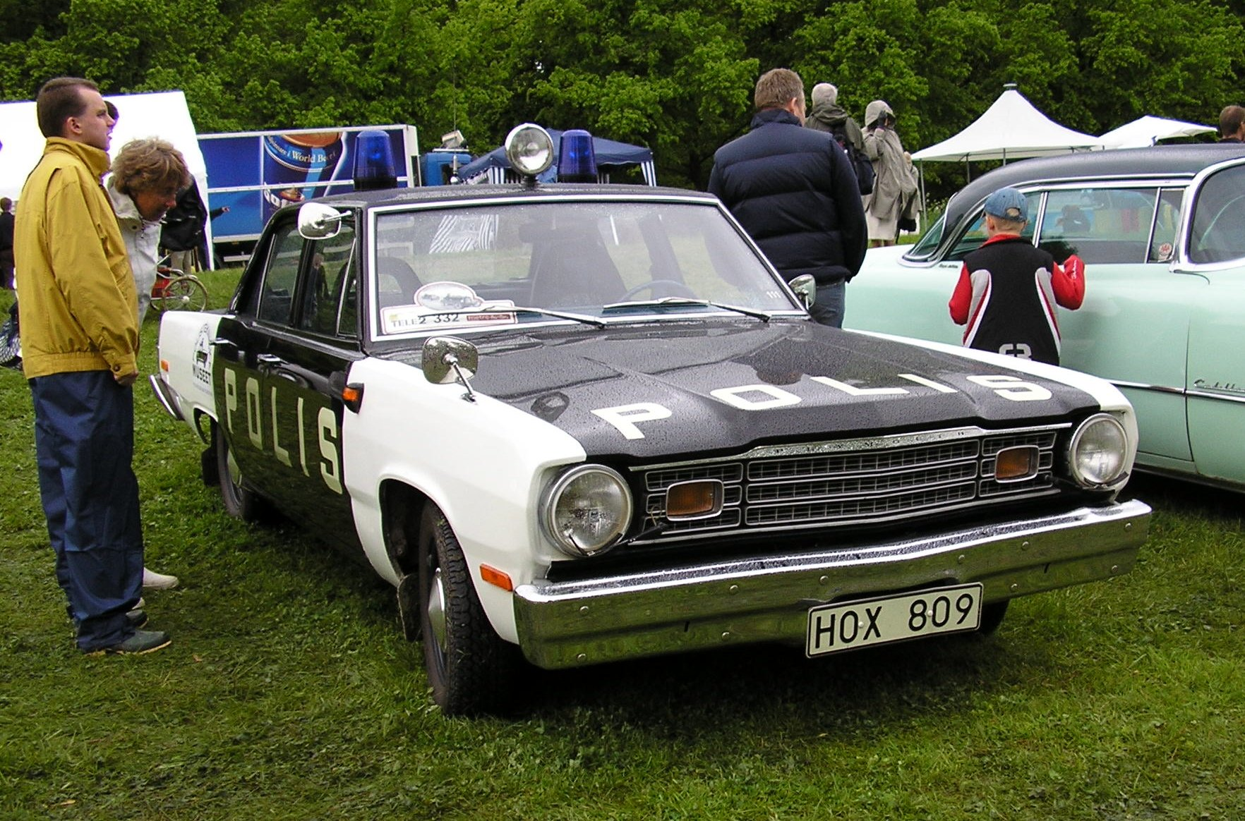 A 1974 Plymouth Valiant Swedish police car. Built in Windsor, Canada, it has a 225 ci Slant Six with 105hp (79kW) and an automatic transmission, and belongs to the Police School in Stockholm. Photographed by myself at Prins Bertil Memorial in Stockholm, Sweden 2005.